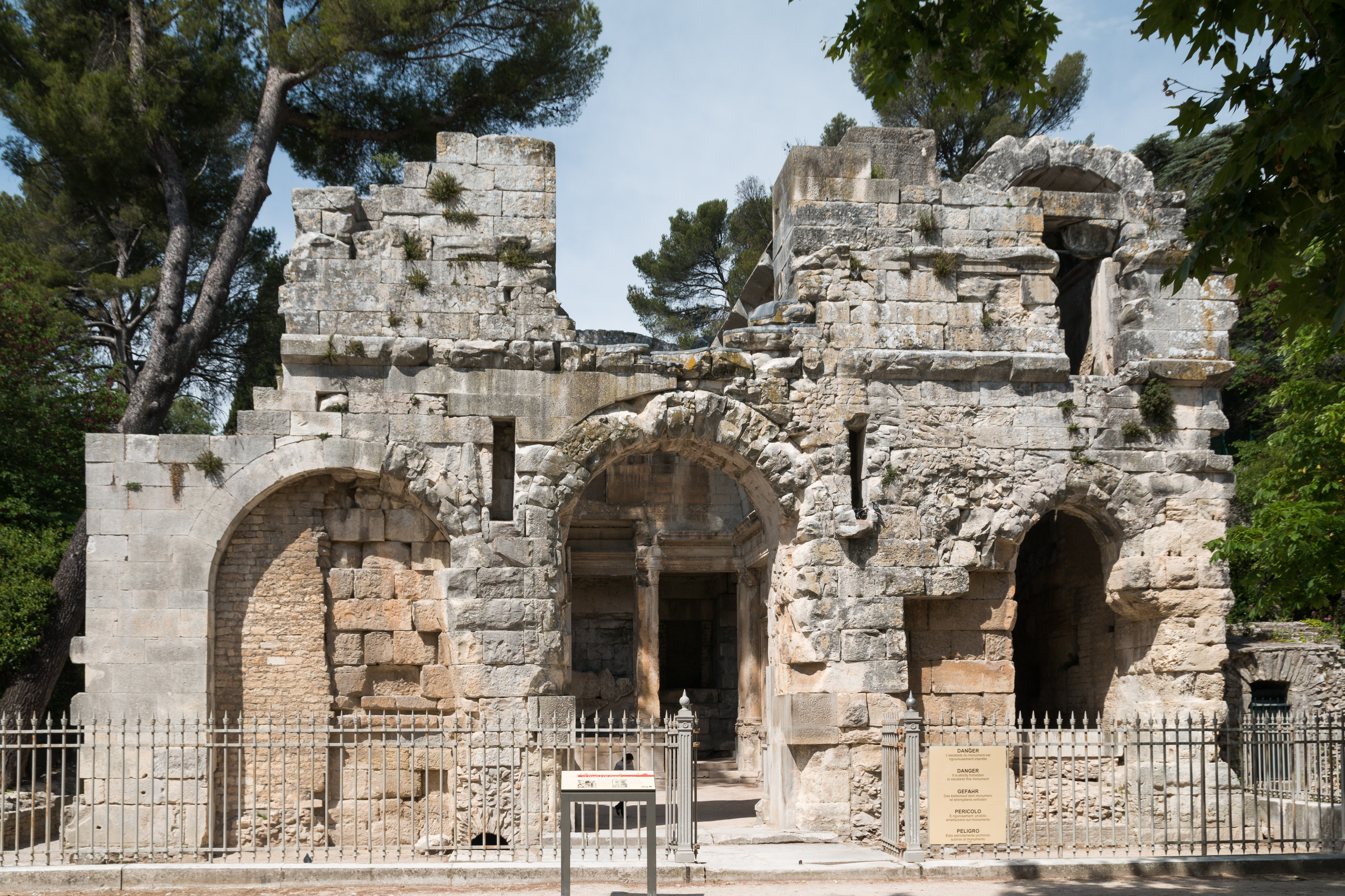 Temple of Diana